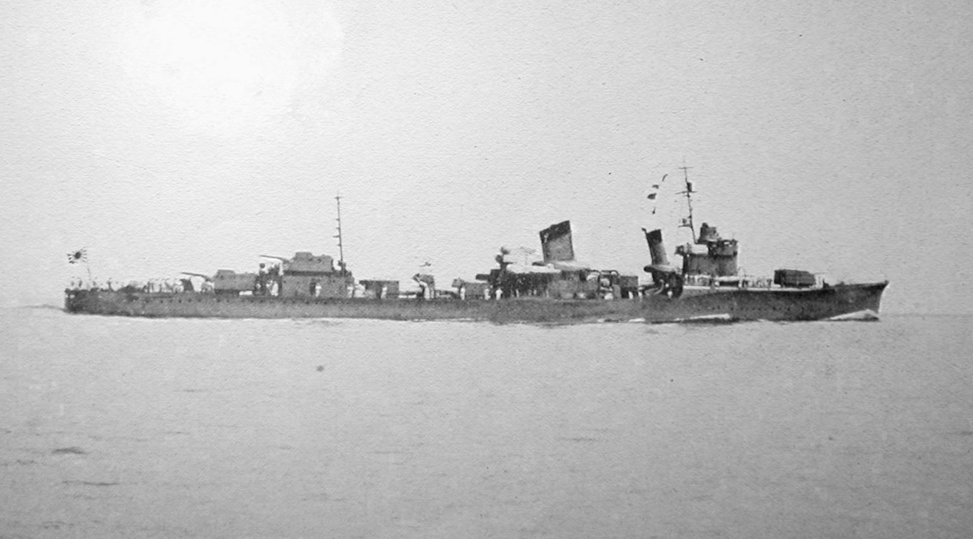 This pre-1945 image is believed to be copyright-free, as it is a Japanese photograph older than 50 years. If copyright exists in this image, use here is asserted to be fair use. Found at: [1] According to Japanese Copyright Law the copyright on this work has expired and is as such public domain. According to articles 51 and 57 of the copyright laws of Japan, under the jurisdiction of the Government of Japan works enter the public domain 50 years after the death of the creator (there being multiple creators, the creator who dies last) or 50 years after publication for anonymous or pseudonymous authors or for works whose copyright holder is an organization. Note: Use PD-Japan-oldphoto for photos published before December 31, 1956, and PD-Japan-film for films produced prior to 1953.